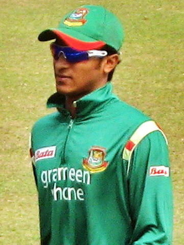 Former Bangladesh skipper and world's top ranked all-rounder Shakib Al Hasan amid 3rd ODI between Bangladesh and Zimbabwe in January 2009.